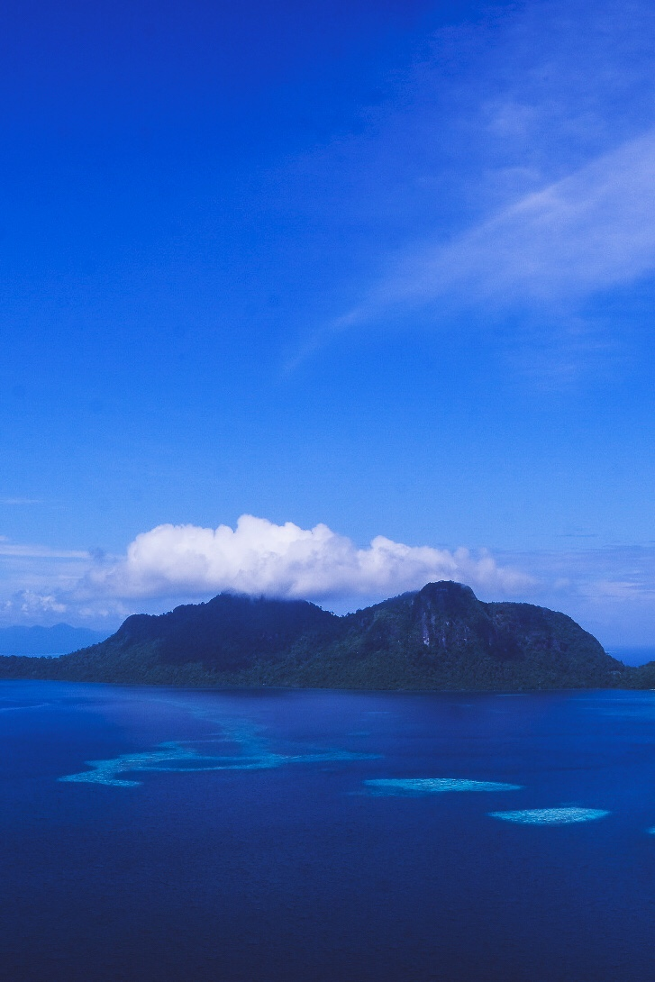 Enjoy your best time in a world with only blue and white.